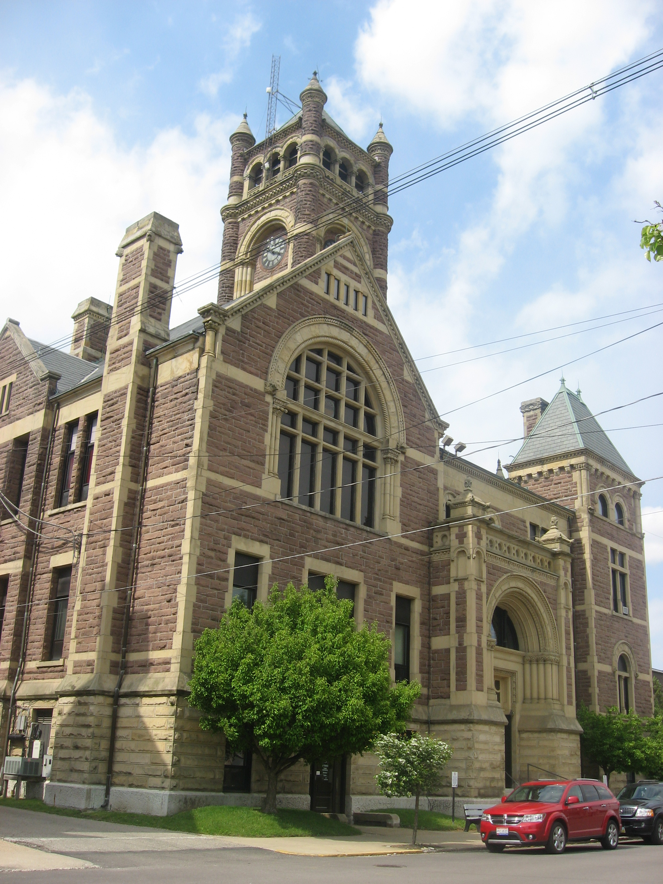 View from the southwest of the Perry County Courthouse, located on the northern side of Brown Street at the intersection with Main Street (State Routes 13/37) in New Lexington, Ohio, United States. Built in 1887 according to a Joseph W. Yost design, they are together listed on the National Register of Historic Places.